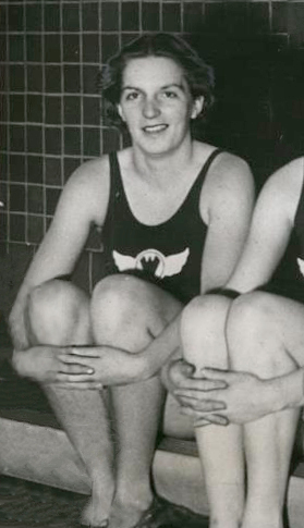 1936 Press Photo Washington relay team Olive McKean, Betty Lea, Jack Medica